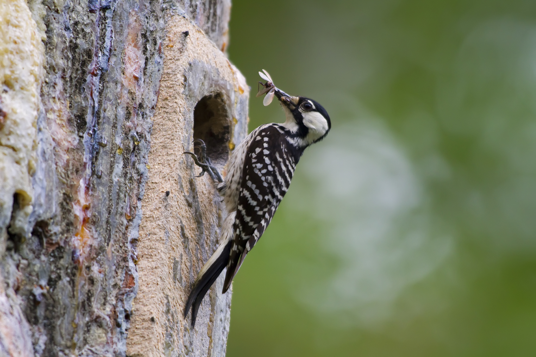 Red-cockaded Woodpecker Picoides borealis, Sam D. Hamilton Noxubee NWR, Mississippi, USA.